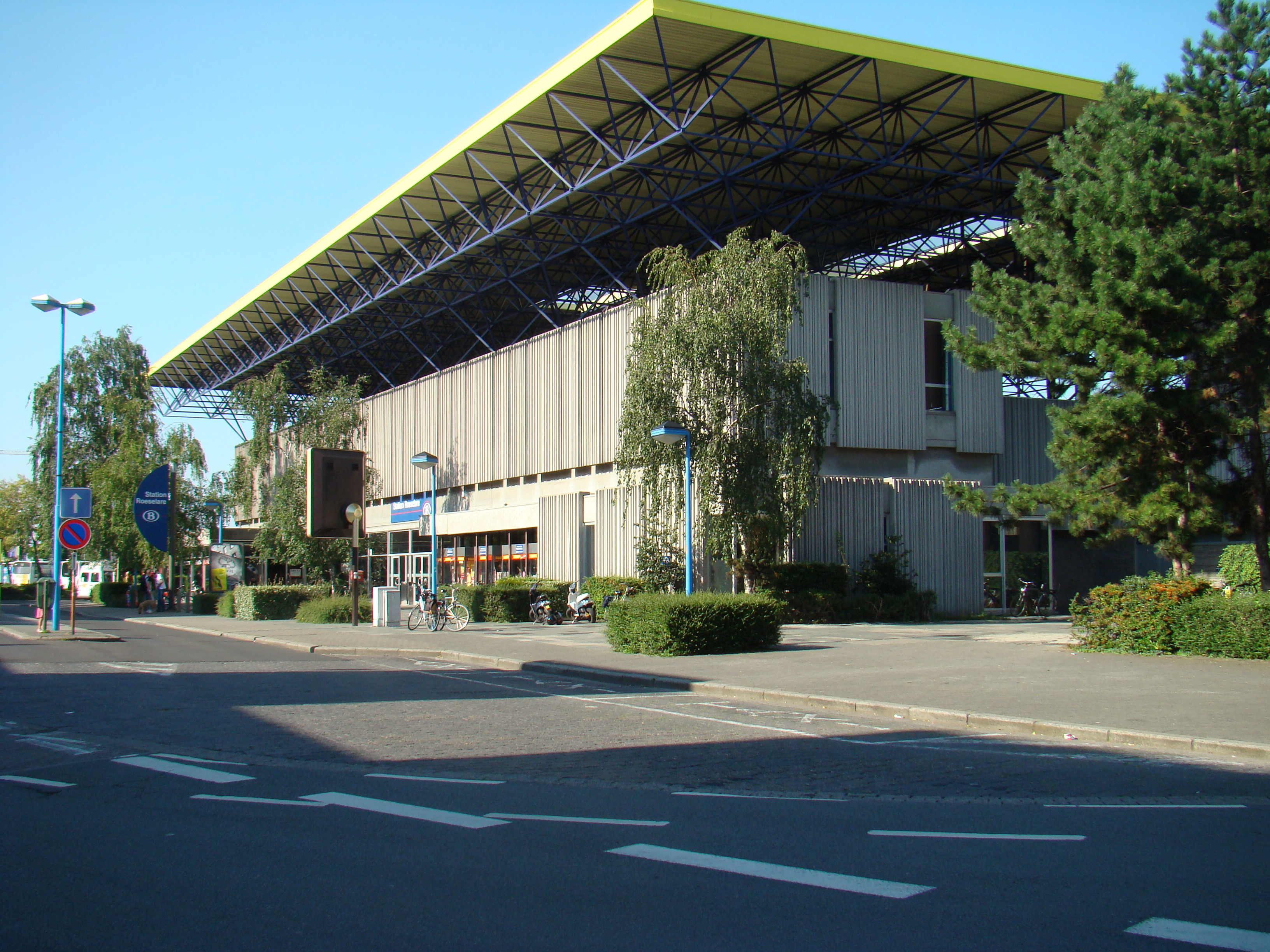 Roeselare (West Flanders, Belgium)